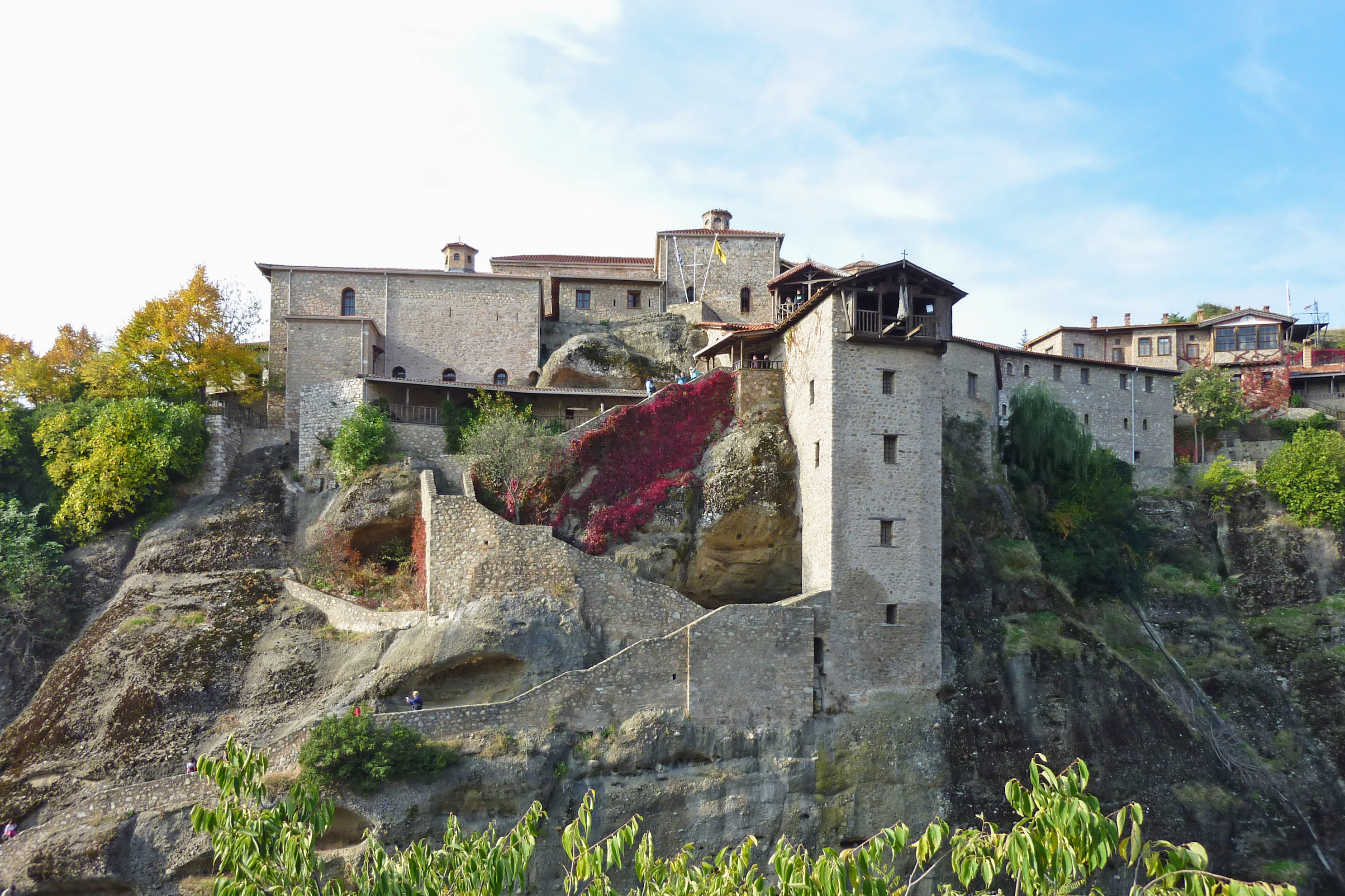 Great Meteoron Monastery, Meteora, Greece